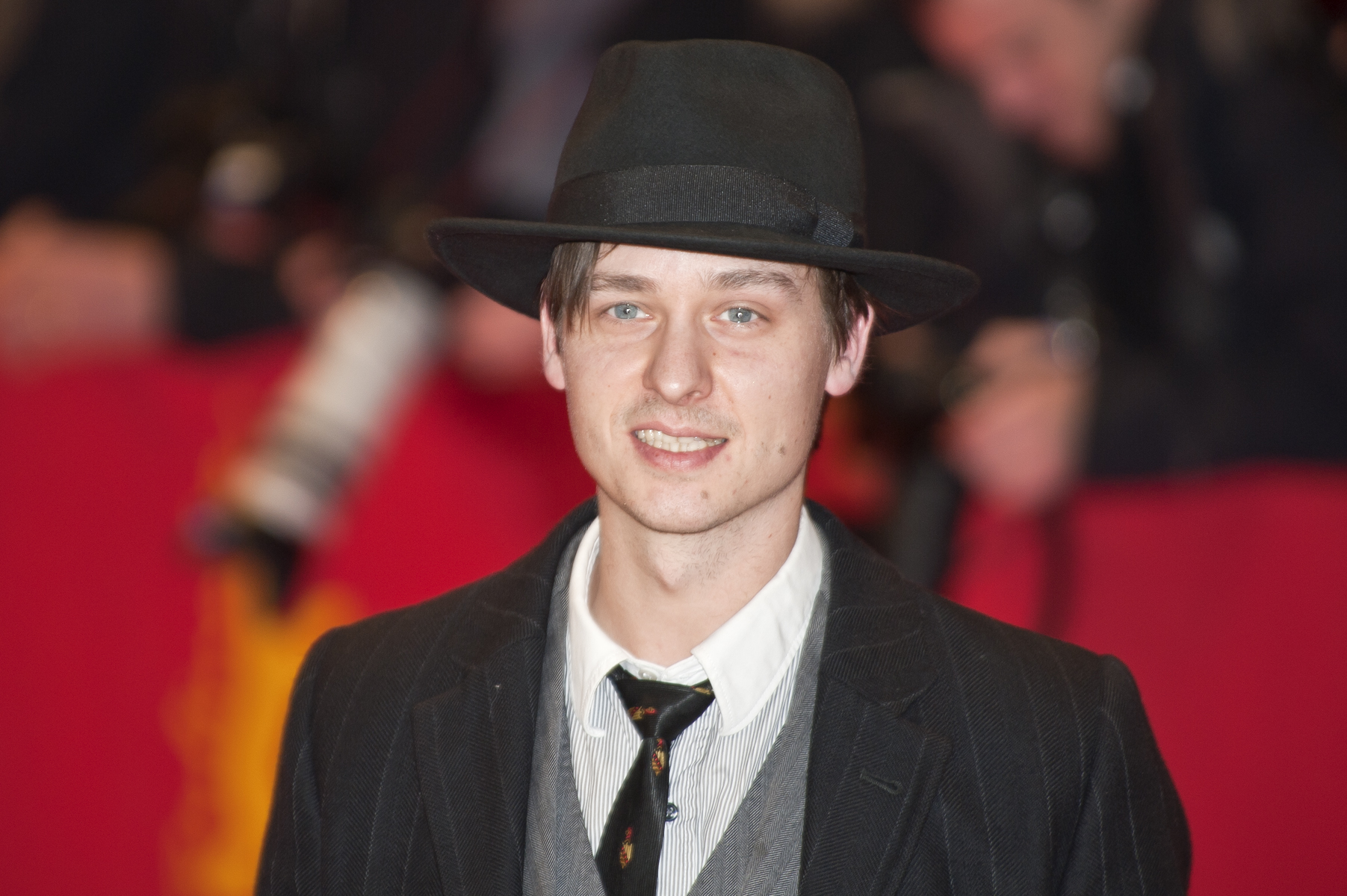 German actor Tom Schilling at the premiere of True Grit during the Berlin Film Festival 2011